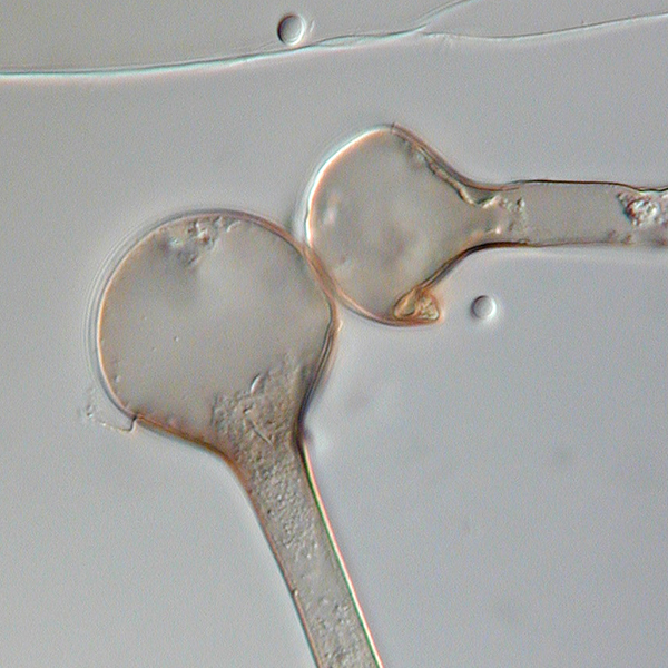 J Scott, personal photo, Absidia corymbifera in Nomarski DIC microscopy Summary J Scott, personal photo, Absidia corymbifera in Nomarski DIC microscopy